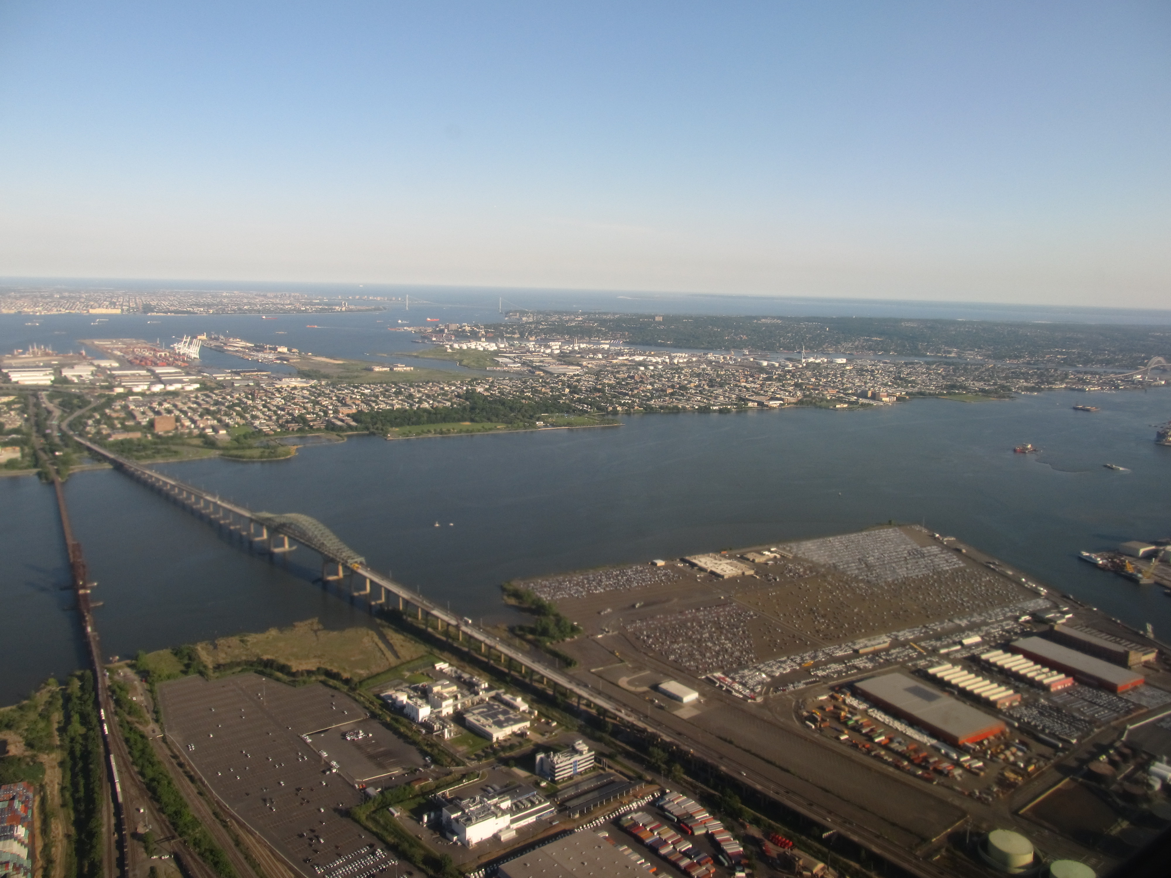 Bayonne is a city in Hudson County, New Jersey, United States. Located in the Gateway Region, Bayonne is a peninsula that is situated between Newark Bay to the west, the Kill van Kull to the south, and New York Bay to the east. As of the 2010 United States Census, the city's population was 63,024. Bayonne was originally formed as a township on April 1, 1861, from portions of Bergen Township. Bayonne was reincorporated as a city by an Act of the New Jersey Legislature on March 10, 1869, replacing Bayonne Township, subject to the results of a referendum held nine days later. At the time it was formed, Bayonne included the communities of Bergen Point, Constable Hook, Centreville, Pamrapo and Saltersville. The city lies at the heart of the Port of New York and New Jersey, east of Newark, the state's largest city, and west of Brooklyn. It shares a land border with Jersey City to the north and is connected to Staten Island by the Bayonne Bridge. While somewhat diminished, traditional manufacturing, distribution, and maritime activities remain important to the economy of the city.